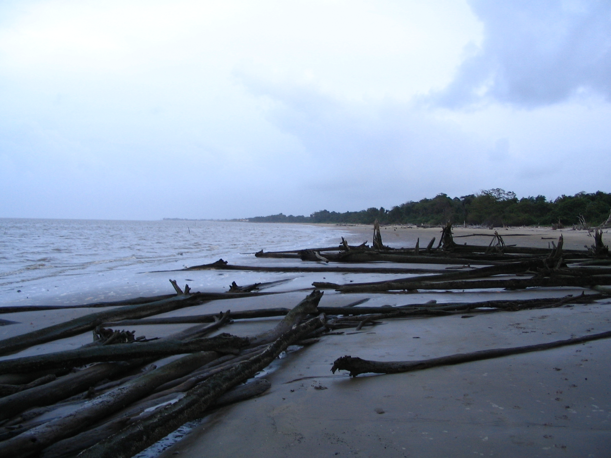 Northern section of Kourou's beach, where it starts to turn into a mangrove, looking south to the city. French Guiana.